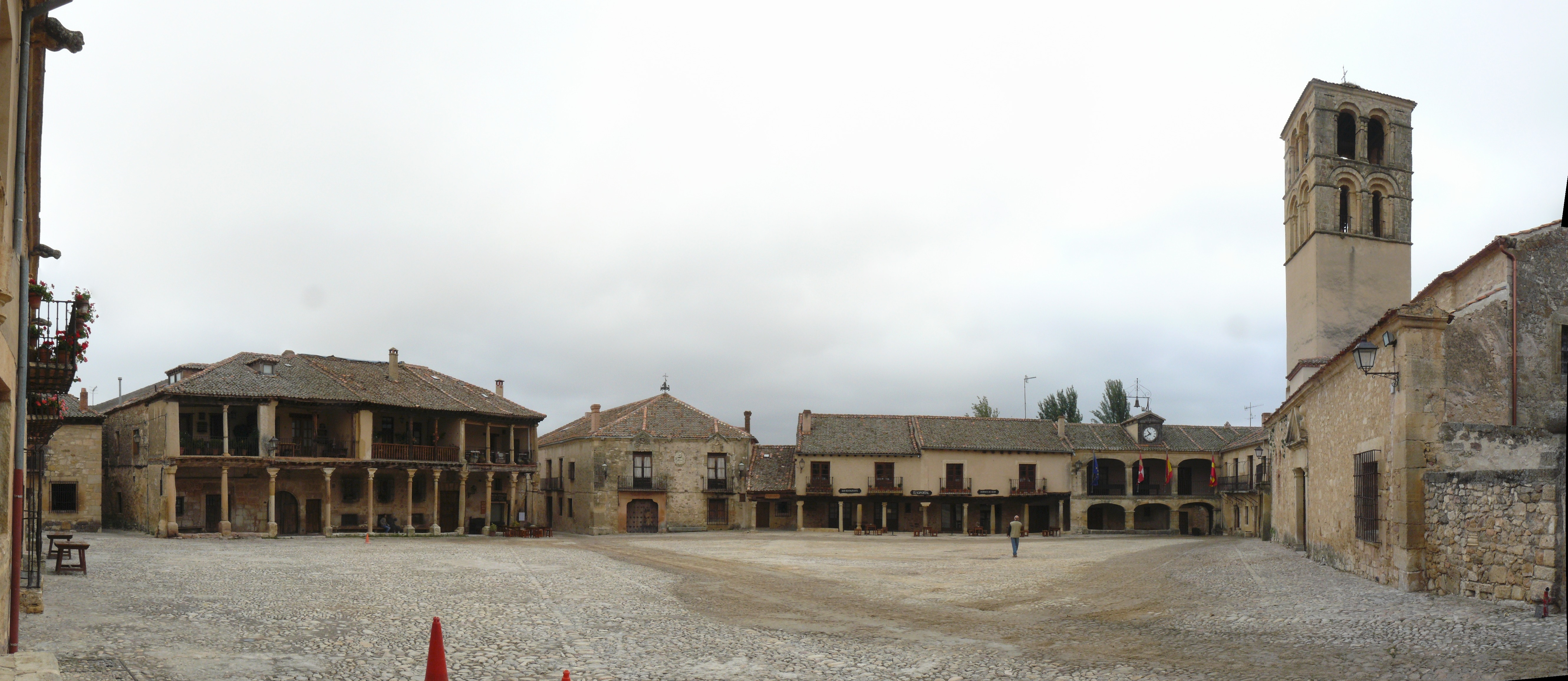 View Pedraza's gate, Pedraza, Segovia (Spain)